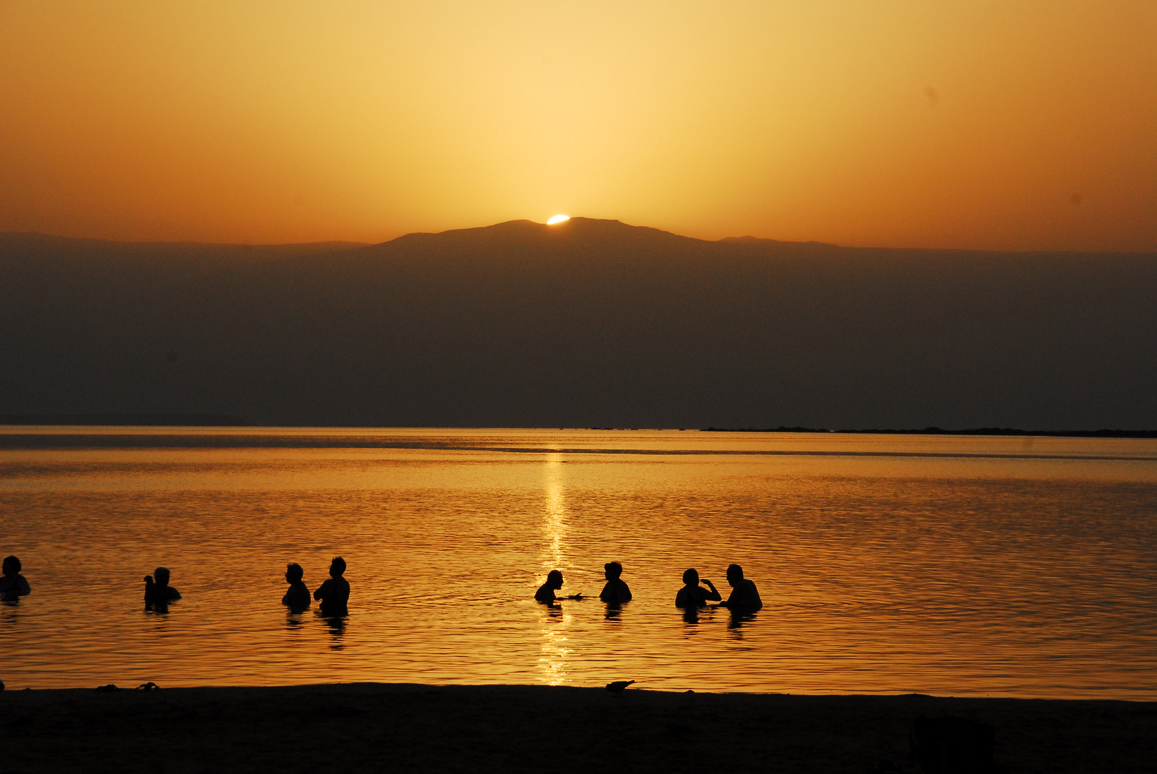 Geography of Israel